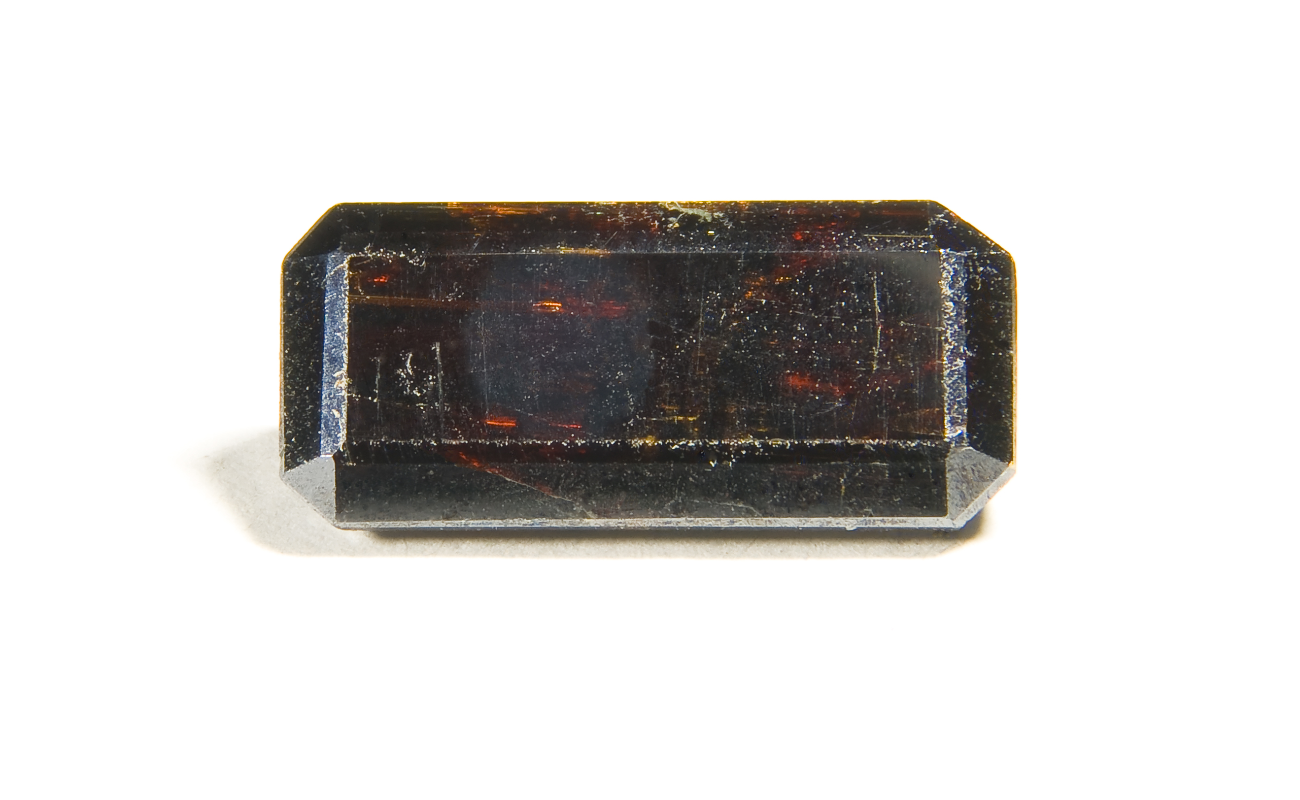 Rutile Cut - Brasil - 3.79Cts